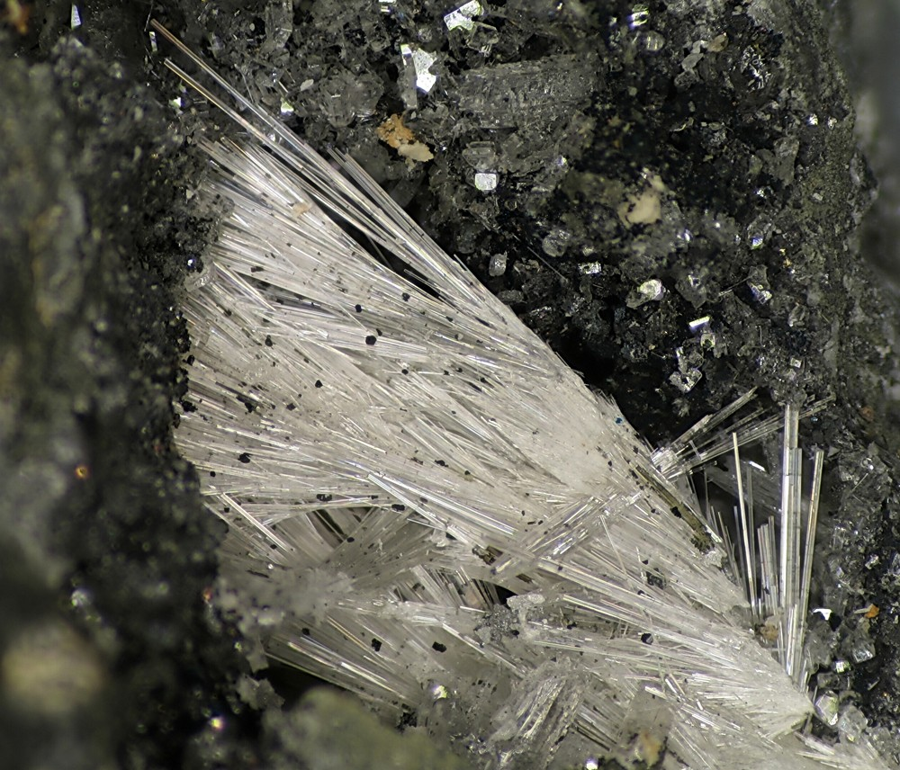 Barstowite Locality: Passa Limani Cove slag locality, Passa Limani area, Lavrion District slag localities, Lavrion (Laurion; Laurium) District, Attikí (Attica; Attika) Prefecture, Greece Picture width 4 mm. Collection and photograph Christian Rewitzer